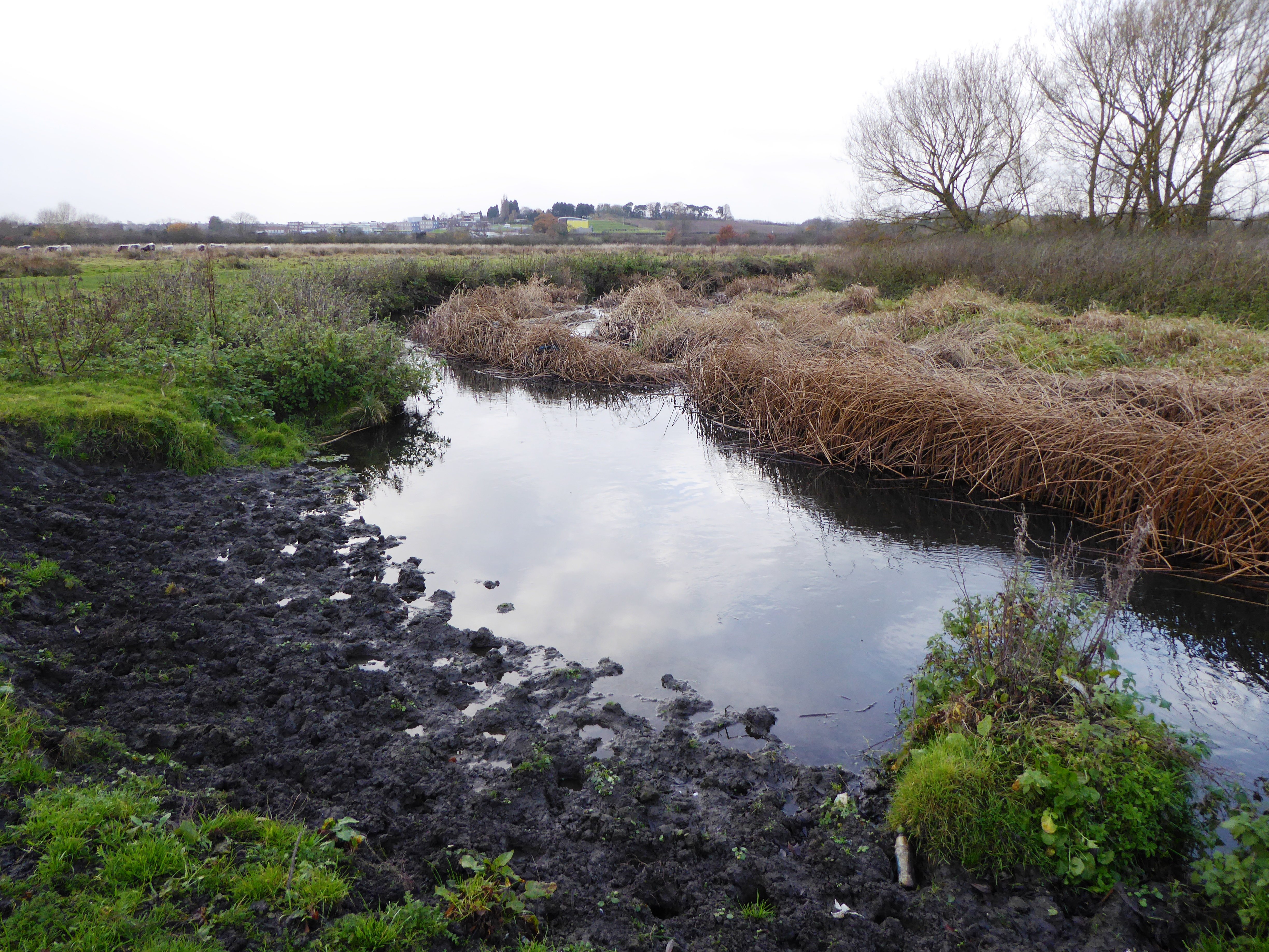 Wanlip Meadows is a Local Nature Reserve east of Wanlip in Leicestershire. It is owned and managed by the Leicestershire and Rutland Wildlife Trust.